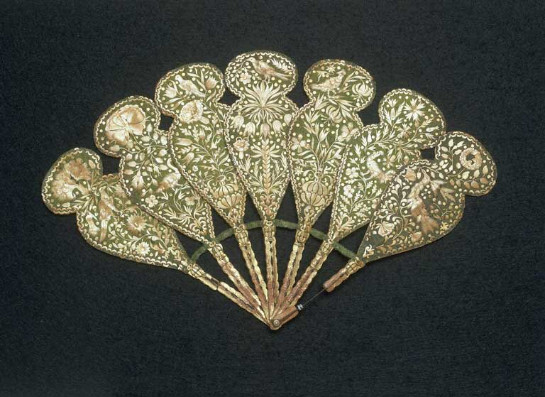 Fan, 1620s V&A Museum no. T.184-1982 Techniques - Cut straw, applied to silk covered cardboard, reinforced with metal rods, and decorated with gold paper and blue and red silk. Place - Florence